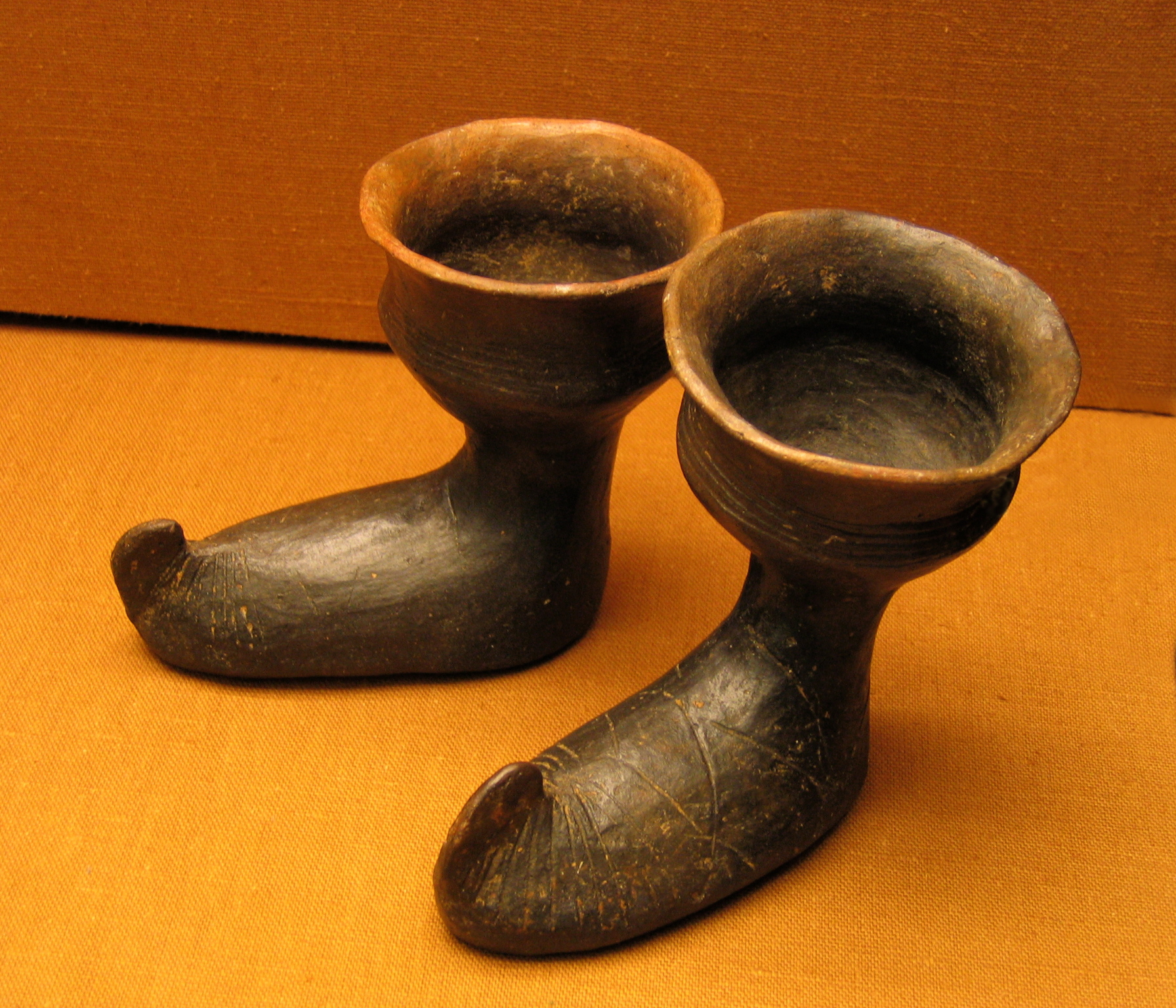 Shoe shaped ceramice vessels out of the noble womans burial no. 140 the alamannic graveyard of Pleidelsheim, Germany. The 18-20 years old woman had both her feet amputated during her live times. The burial is typologically dated to SD-Phase 5 approx. 530-555 A.D.